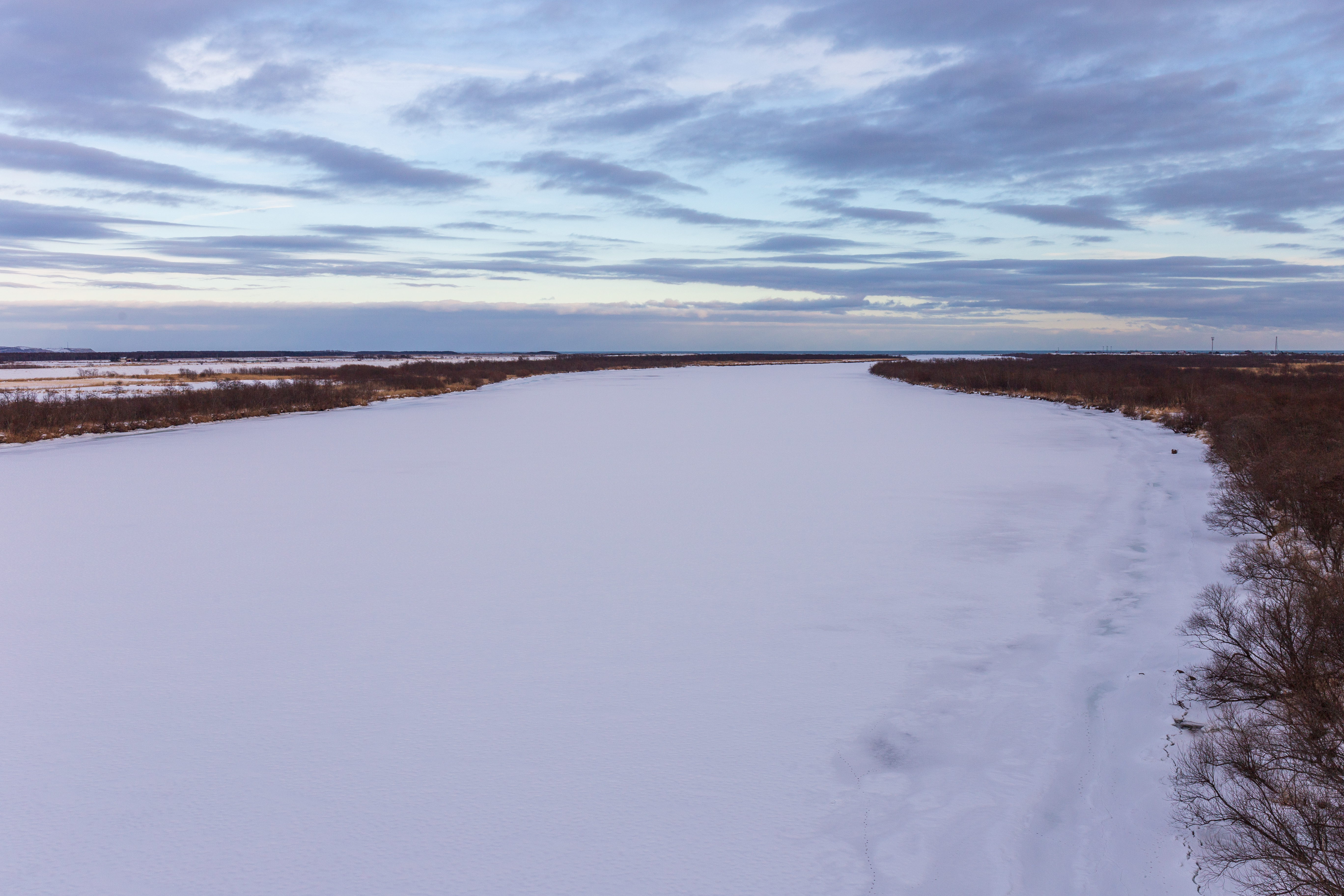 View of frozen Tokachi River towards the river mouth, seen from the Tokachi-kako Bridge on the border of Toyokoro and Urahoro Towns, Hokkaido, Japan